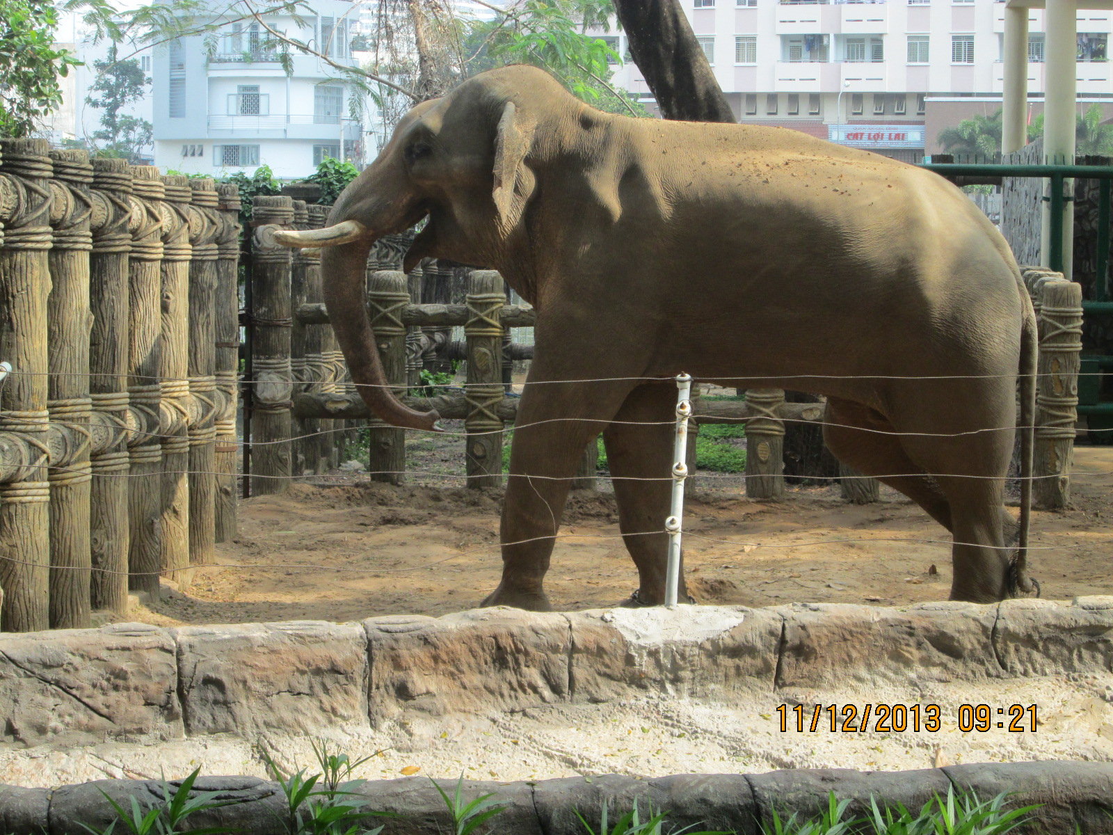 Unchained elephant in its enclosure.